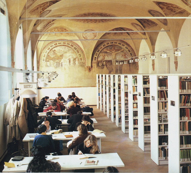 The library at the University of Pavia. Image shows the interior of the restored refectory and annex of the the Monastery of San Felice in Pavia, converted to a library at the university's school of engineering.